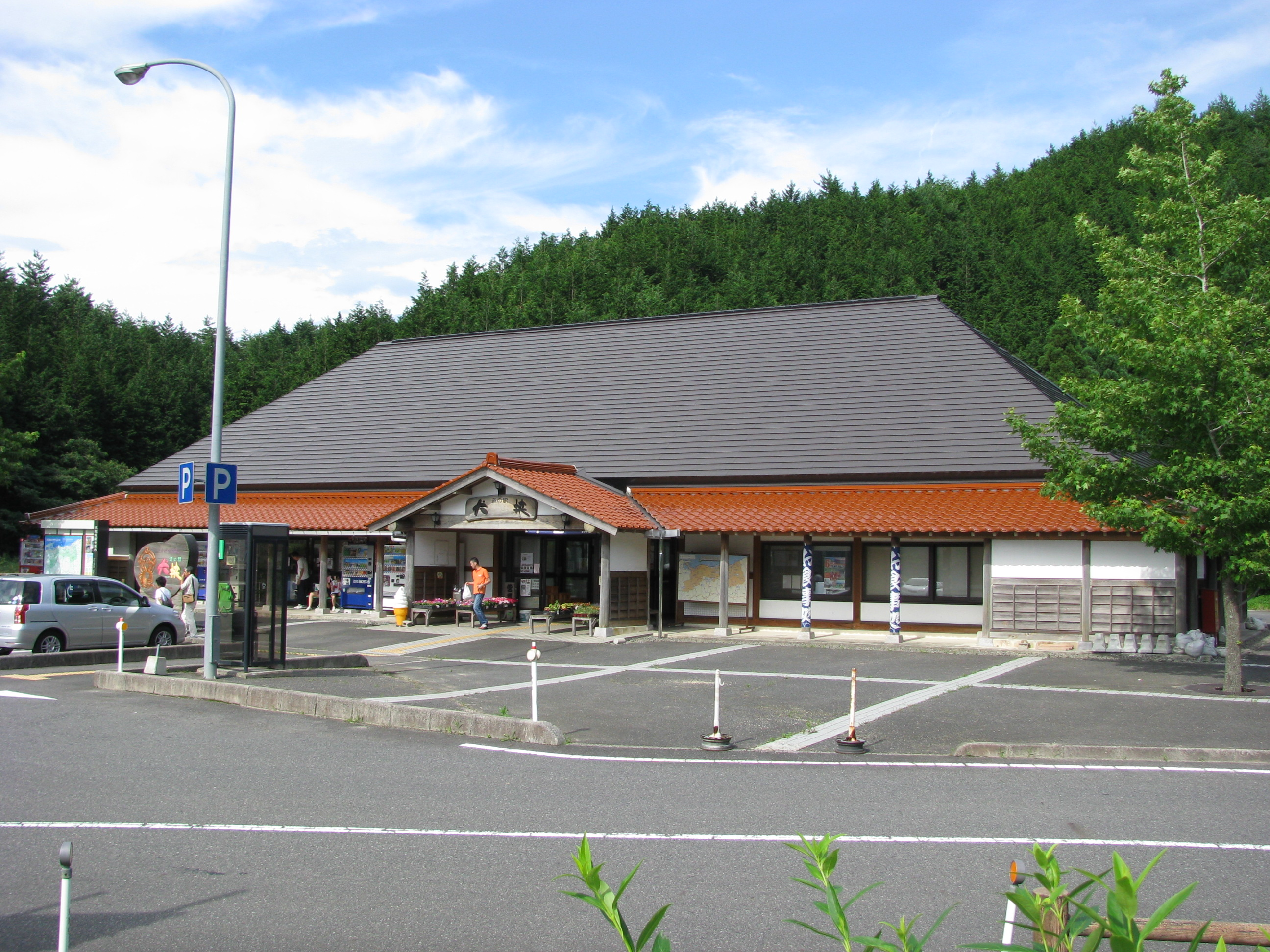 Michinoeki Inubasari on the Japan National Route 313 in Kurayoshi City, Tottori Prefecture, Japan